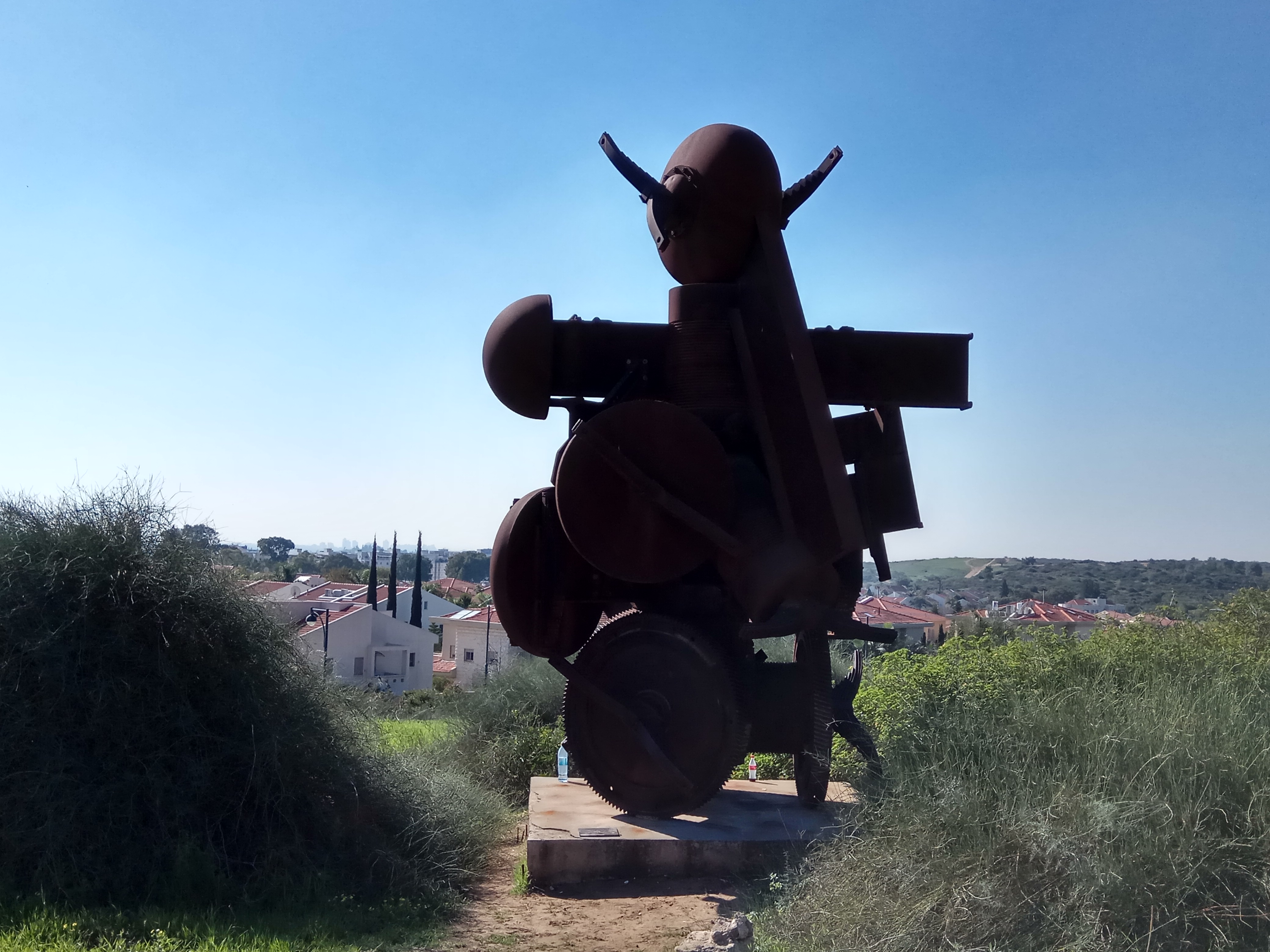 The chariot sculpture in Nes Tziona